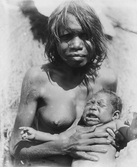 Mother and child, Sunday Island, Western Australia.